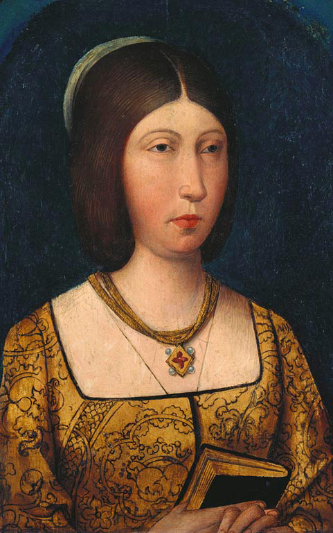 Isabella is wearing a lavishly embroidered gold dress, white skull-cap and double-strand gold necklace with a ruby and pearl pendent